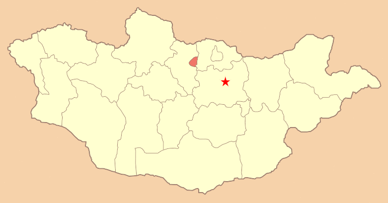 Map of Mongolia with Orkhon Aimag highlighted.